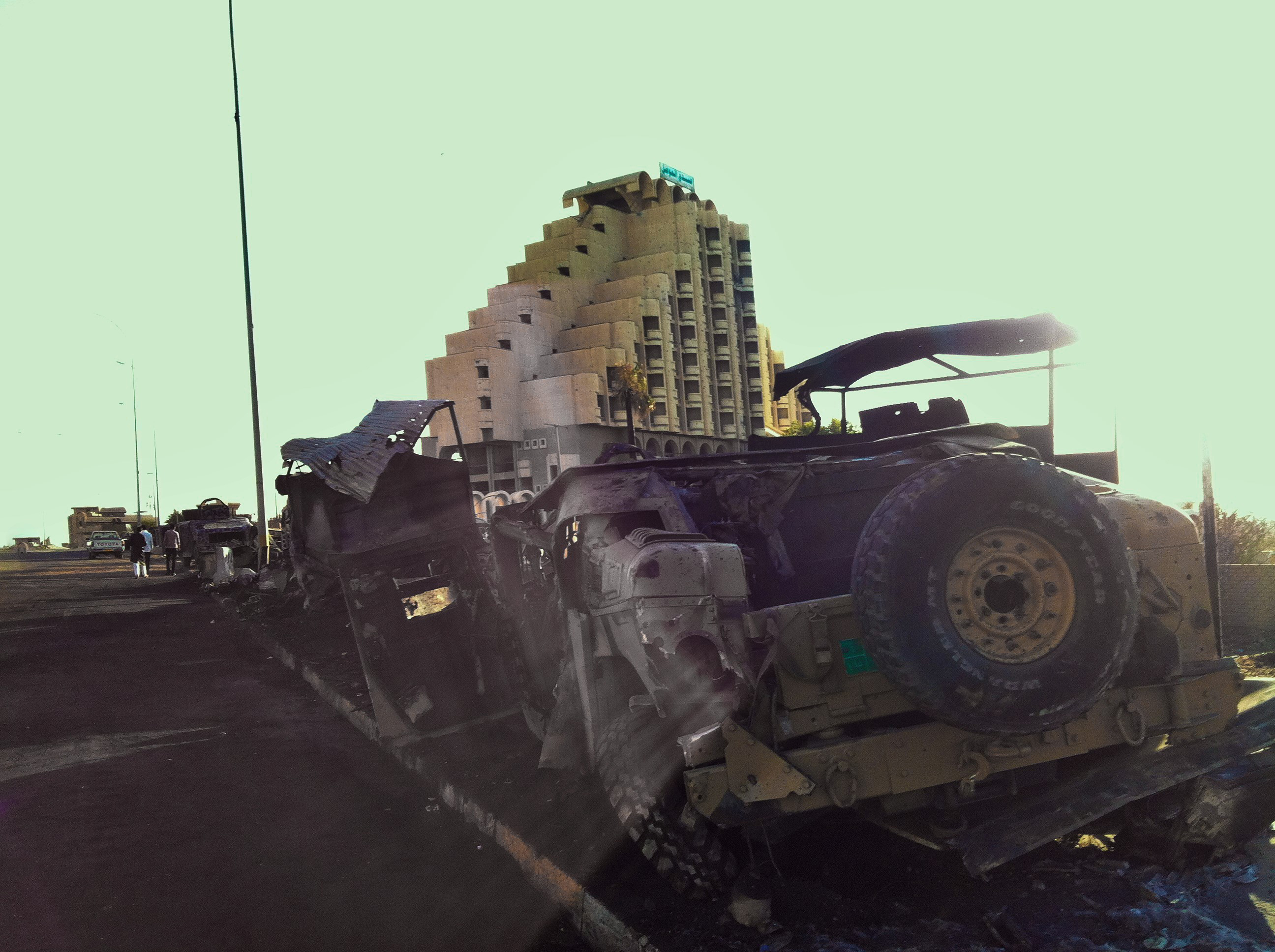 Humvee down after Islamic State of Iraq and the Levant attack in Mosul, Iraq 2014-06-14